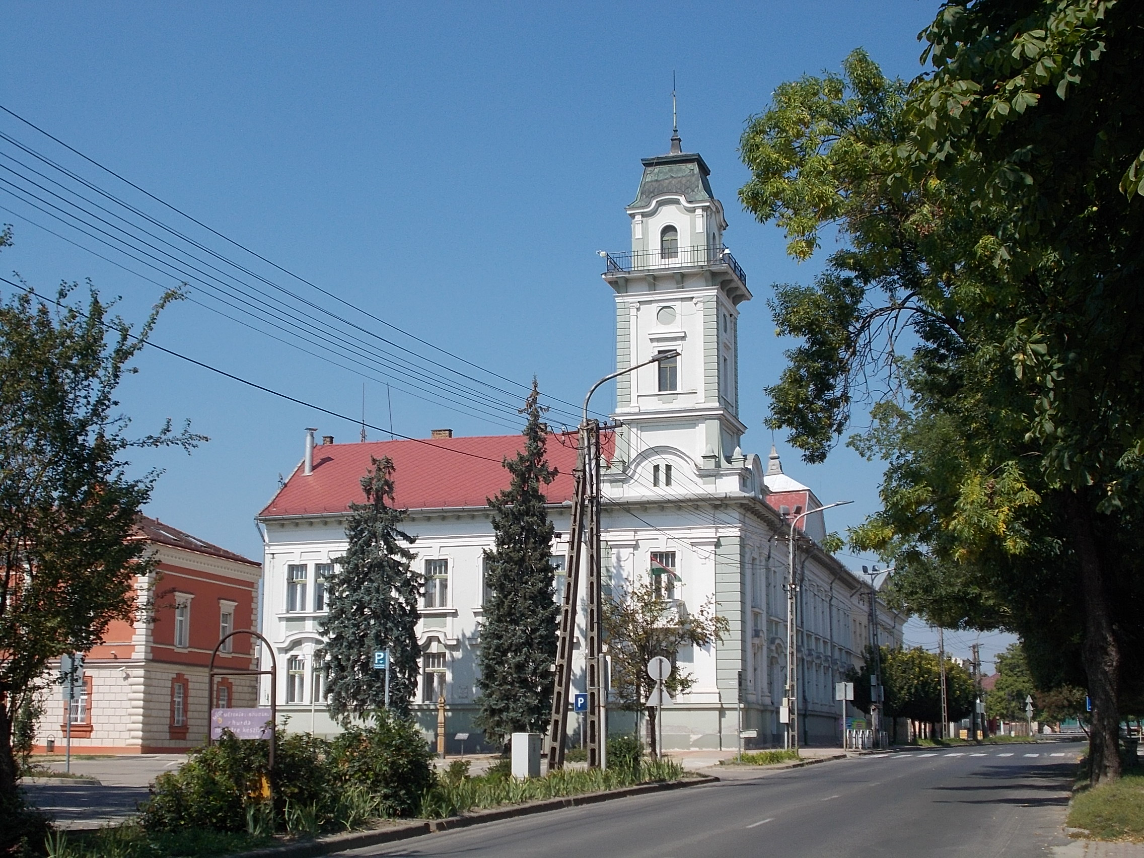 City Hall. - Szabadság street, Tamási, Tolna County, Hungary